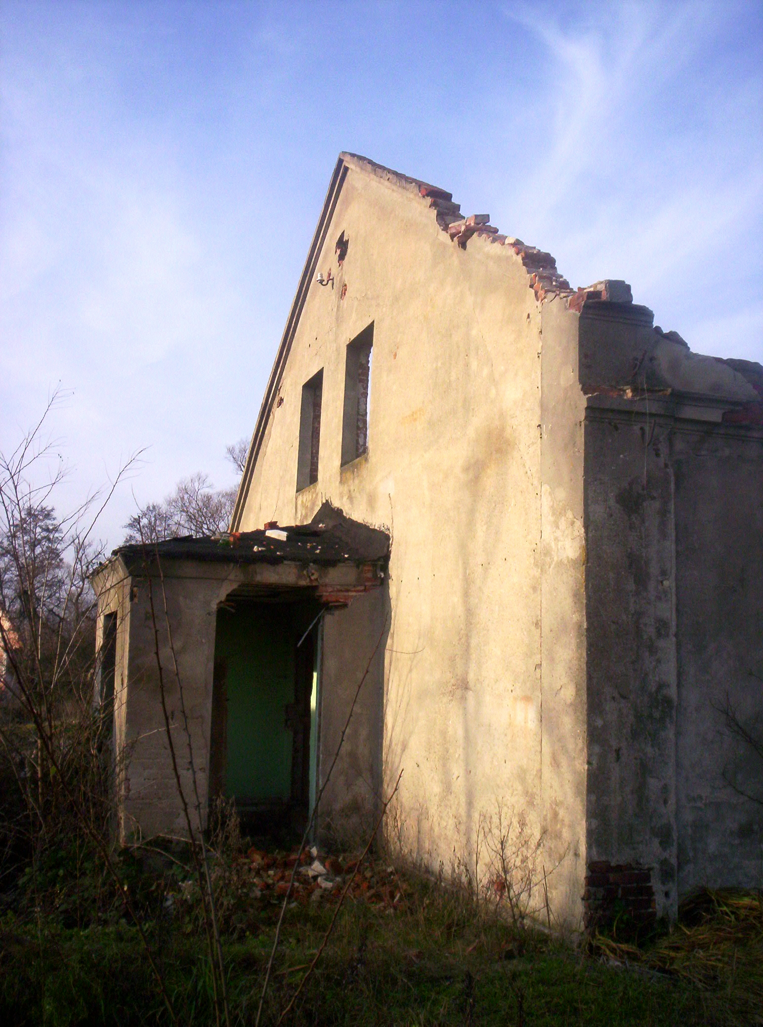 Ruined house in Charzew